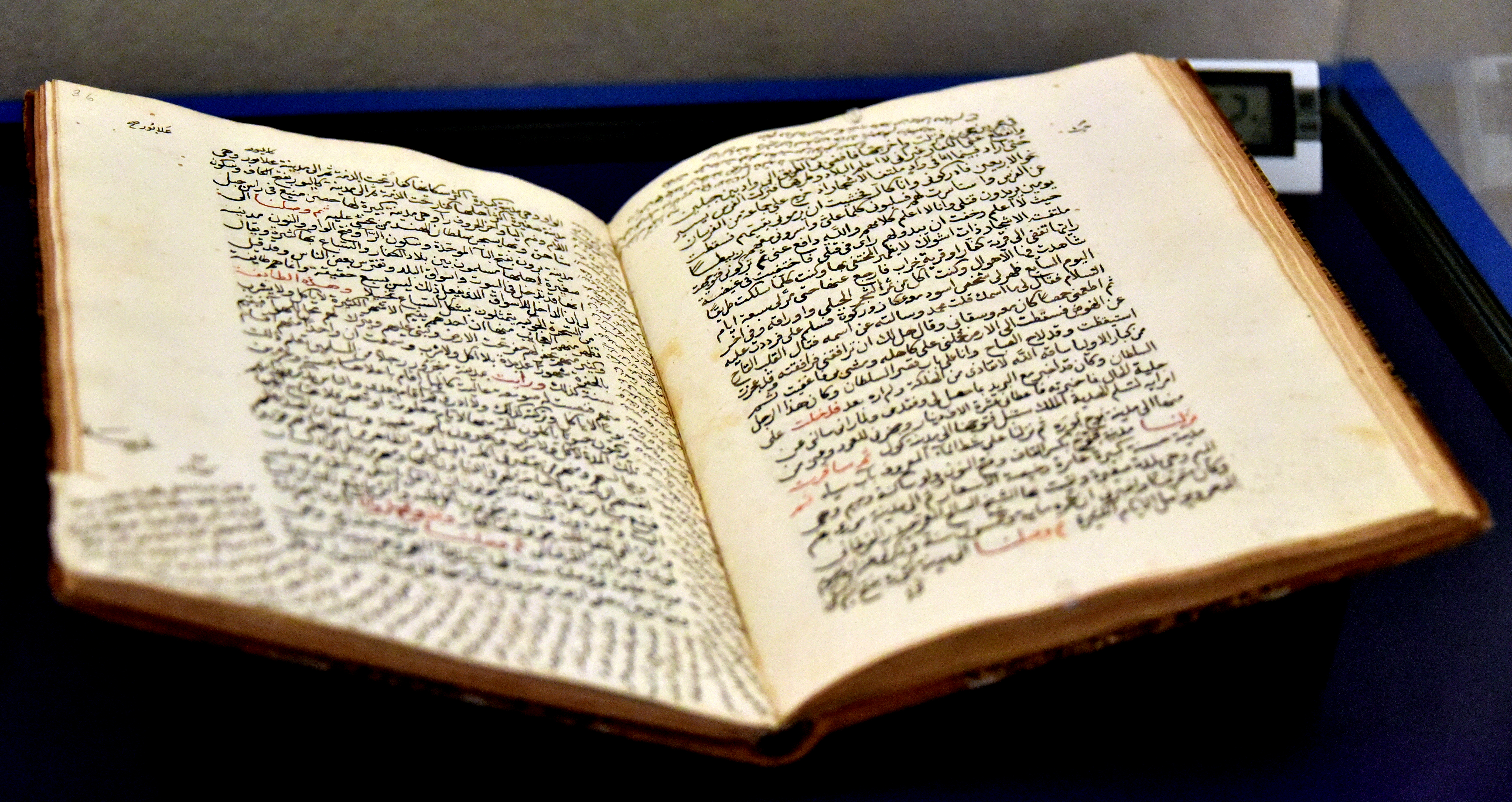 Historic copy of selected parts of the Travel Report by Ibn Battuta, 1836 CE, Cairo. It was displayed at the Neues Museum in Berlin, Germany, Exhibition of "Cinderella, Sindbad & Sinuhe, Arab-German Storytelling Traditions", April 18, 2019, to August 18, 2019. Berlin State Library, Prussian cultural heritage, Orient Department (Staatsbibliothek zu Berlin, Preußischer Kulturbesitz, Orientabteilung, Ms or Oct. 3974).